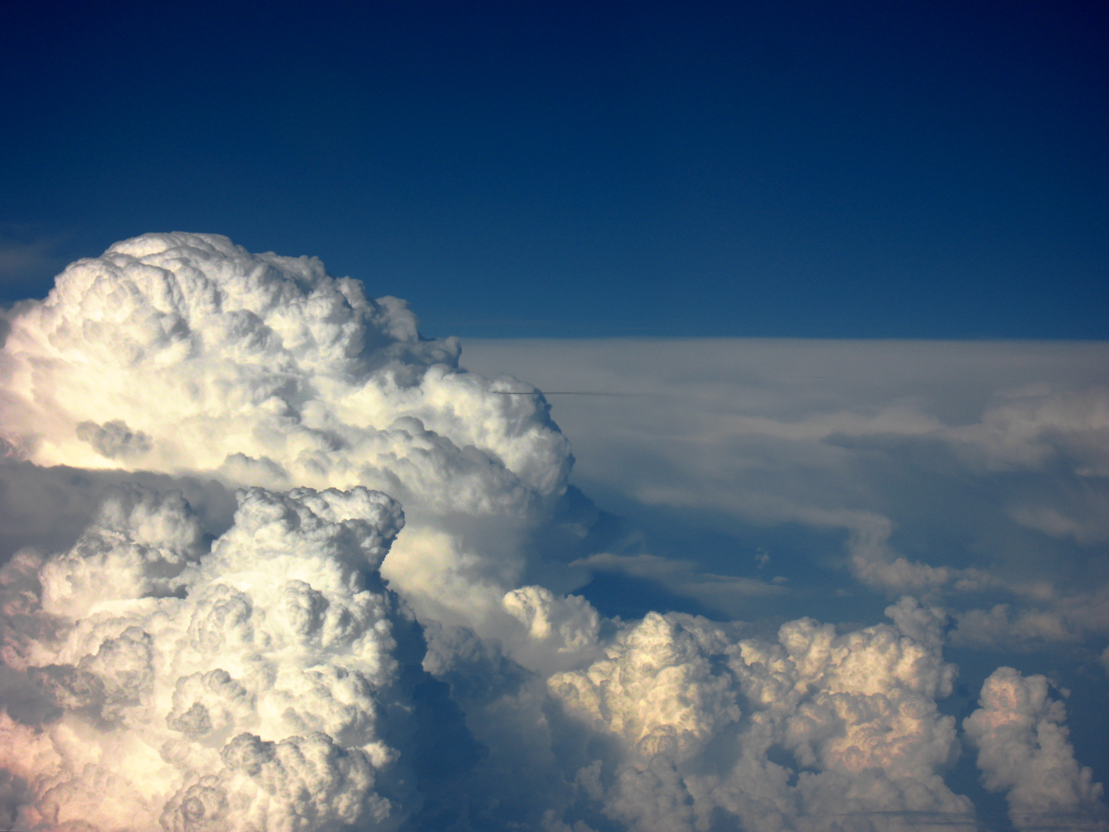 Photo of Cumulonimbus clouds